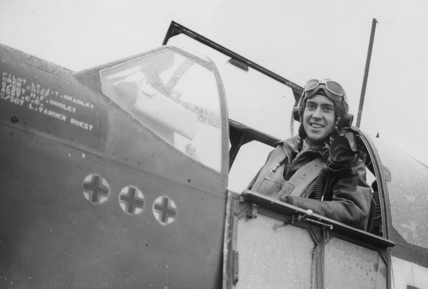 Captain Jack Bradley of the 354th Fighter Group in the cockpit of his P-51 Mustang.